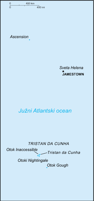 Map of Saint Helena in Slovene.